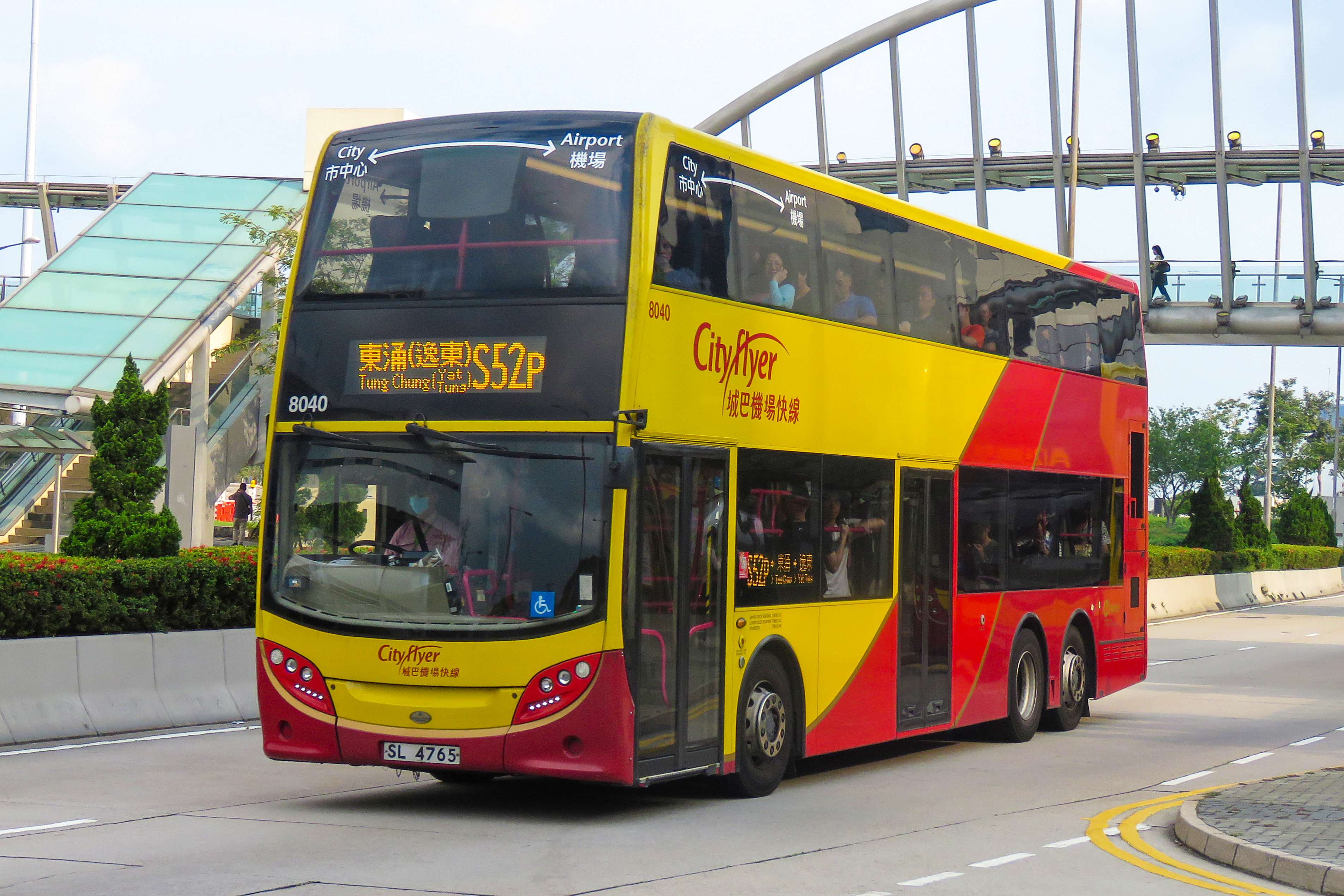 Why is this returning S52P so busy?